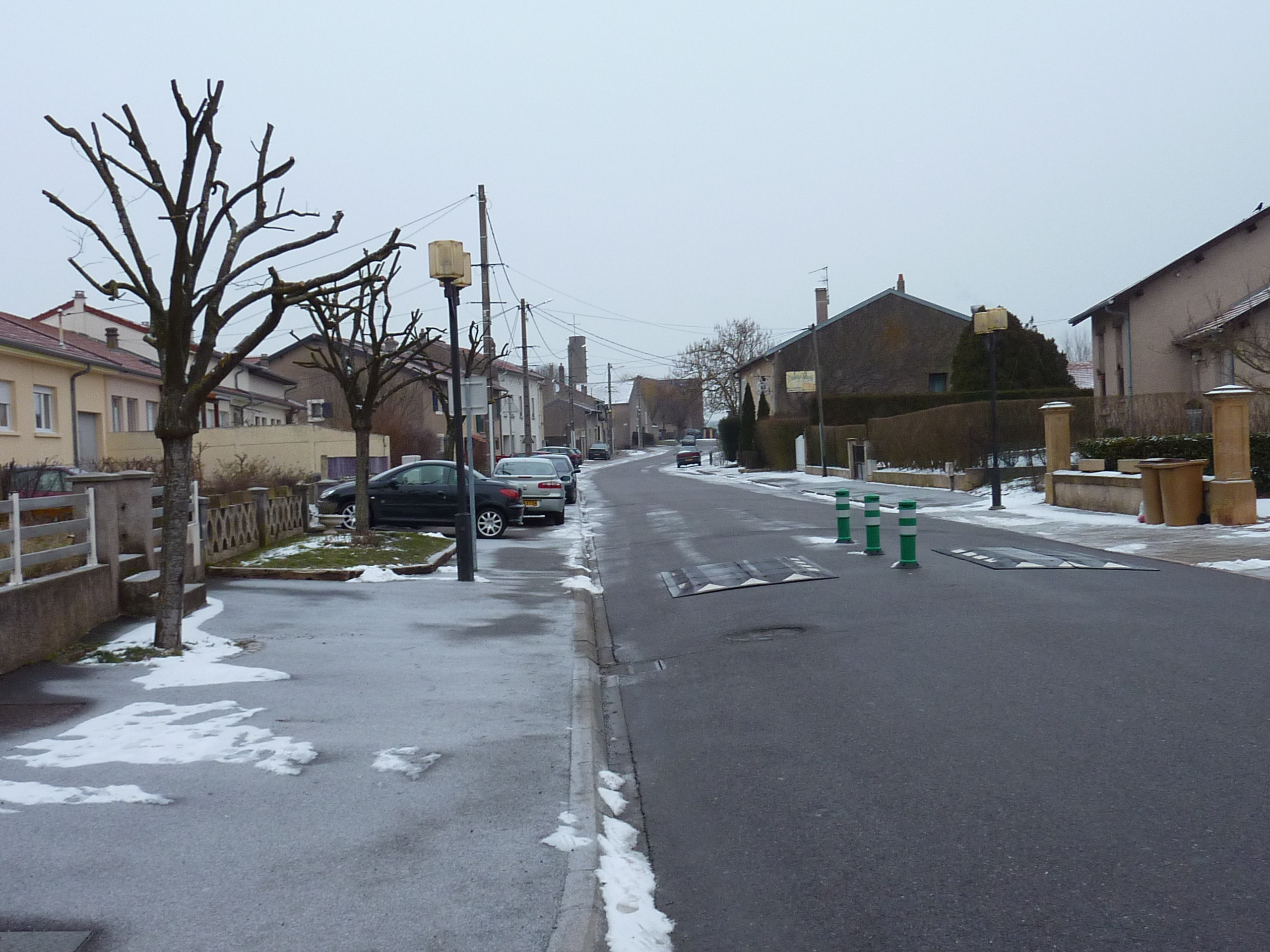 Gérard Mansion Street in Fleury (Moselle), France. Česky: Ulice Gérard Mansion ve Fleury (Moselle), Francie.